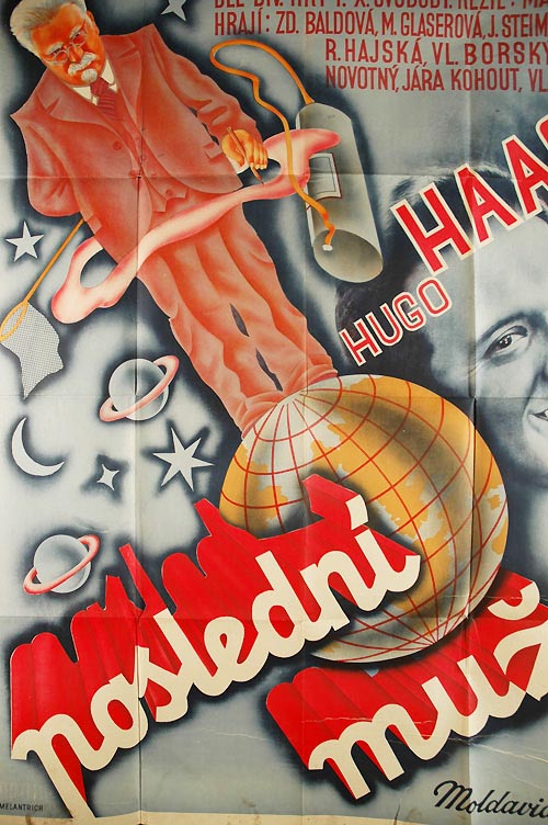 Czech movie poster to Czech film Poslední muž (1934)